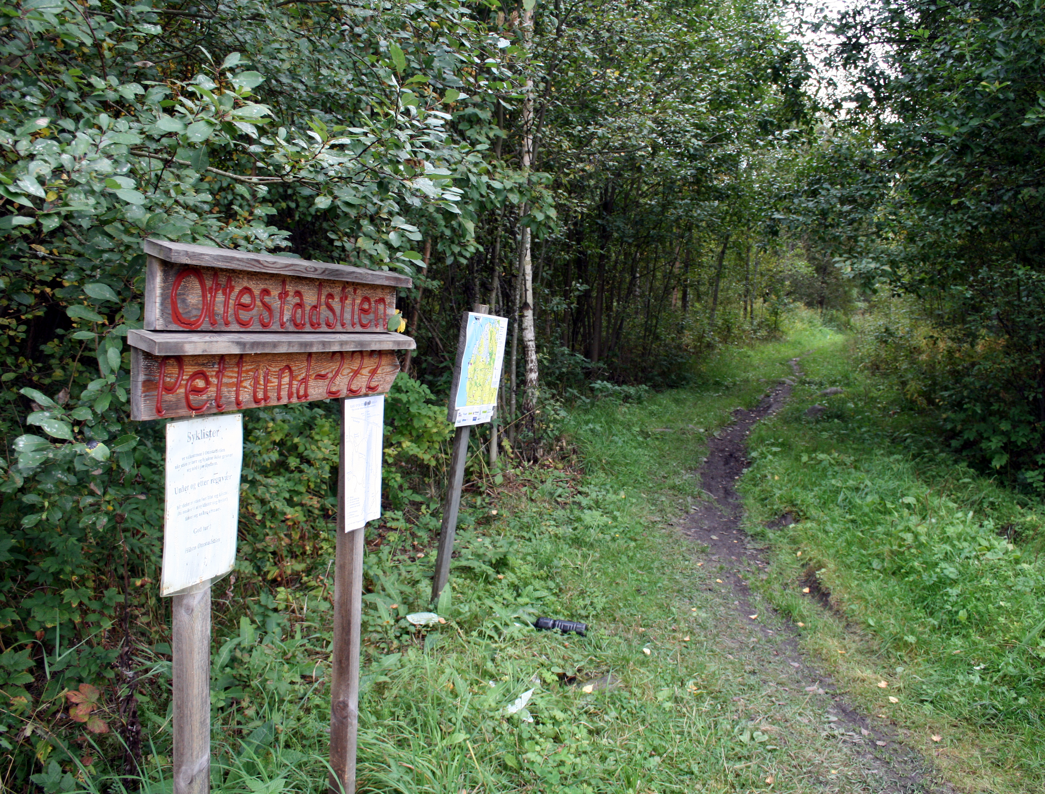 Sign and Map at th Ottestad-path , Norway